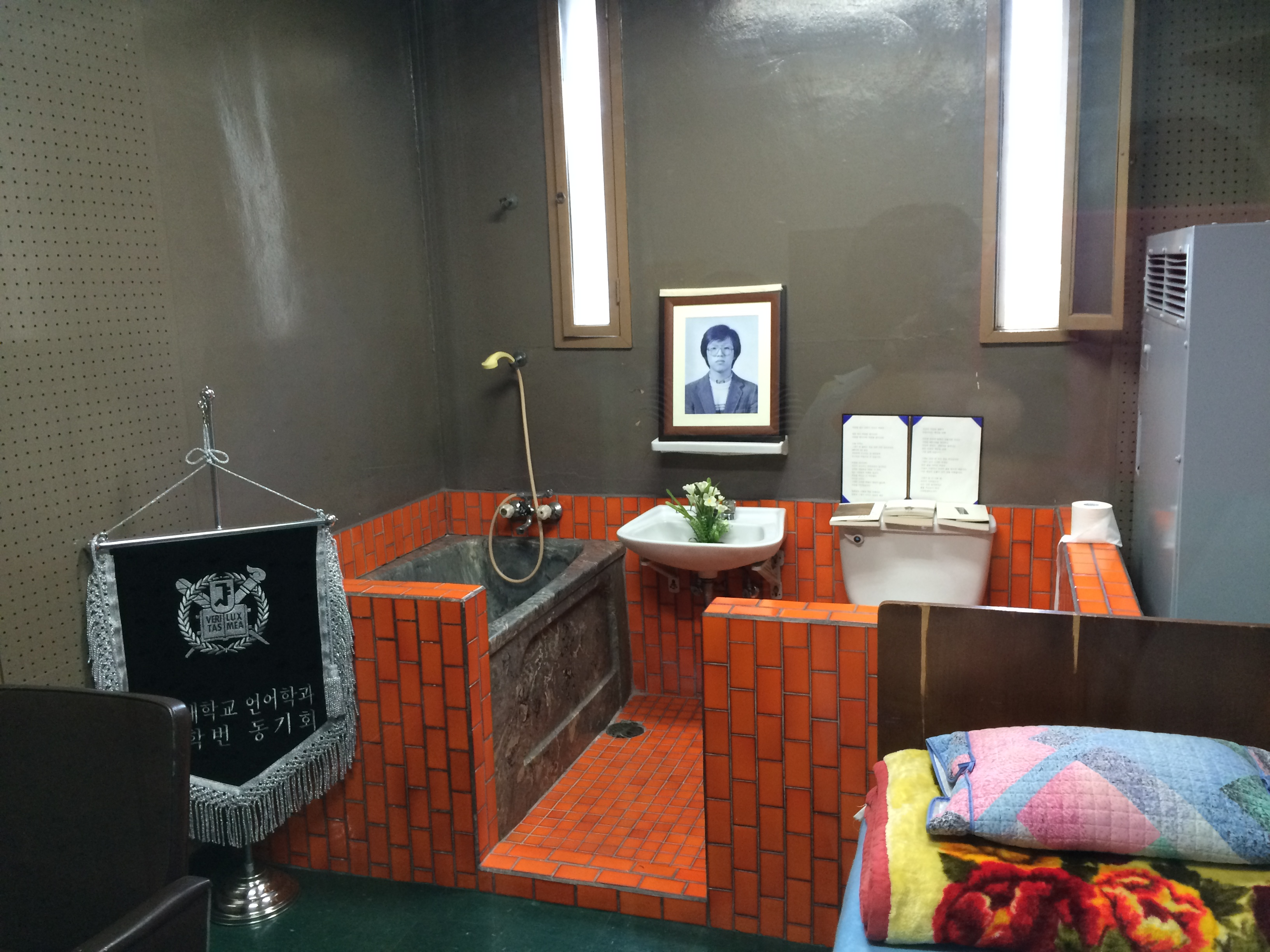 Park Jong Cheol Memorial Room in Namyeongdong Daegong Bunsil. He died in this room by torture.